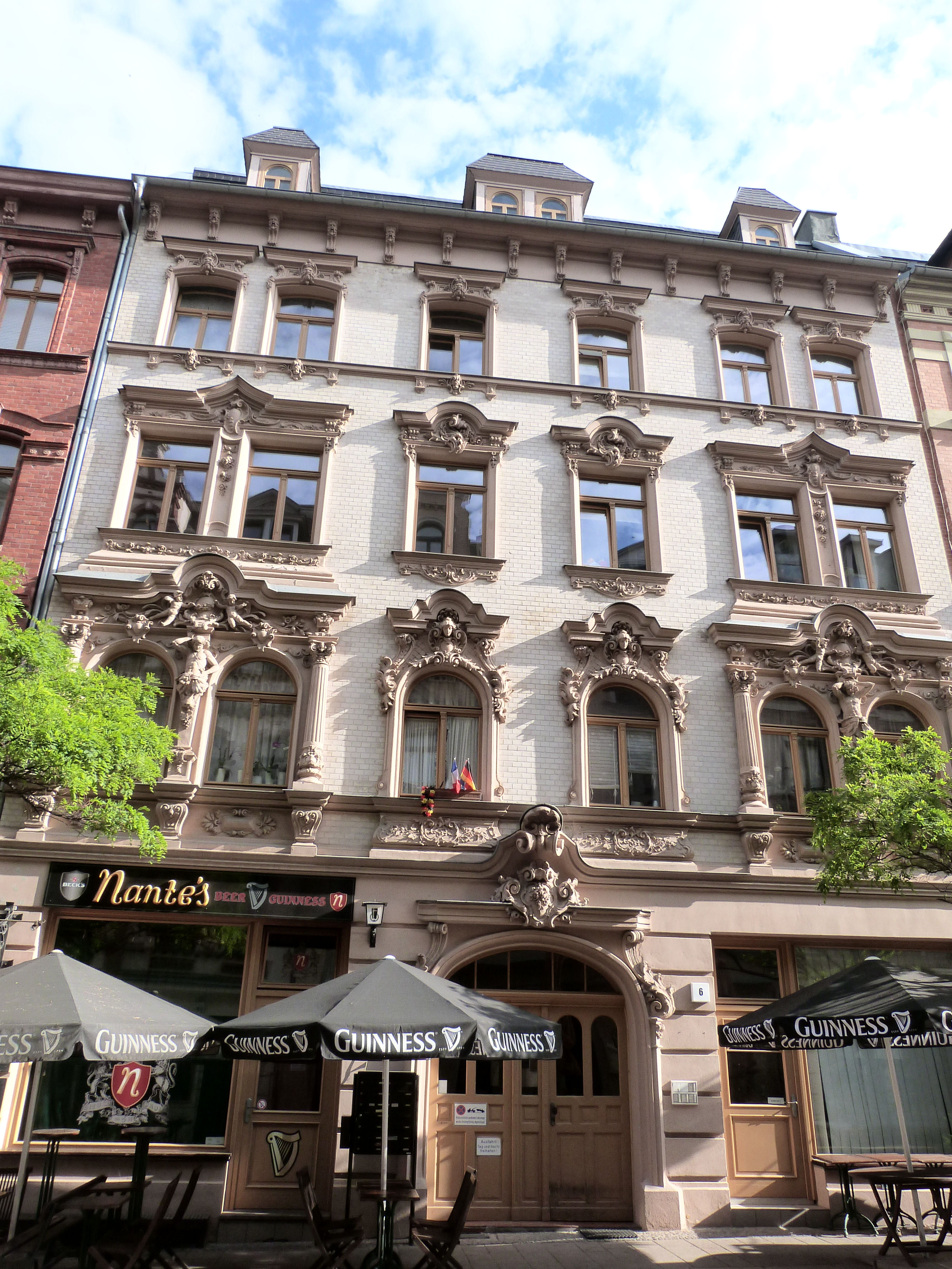 House No. 6, Sternstrasse in Halle (Saale)